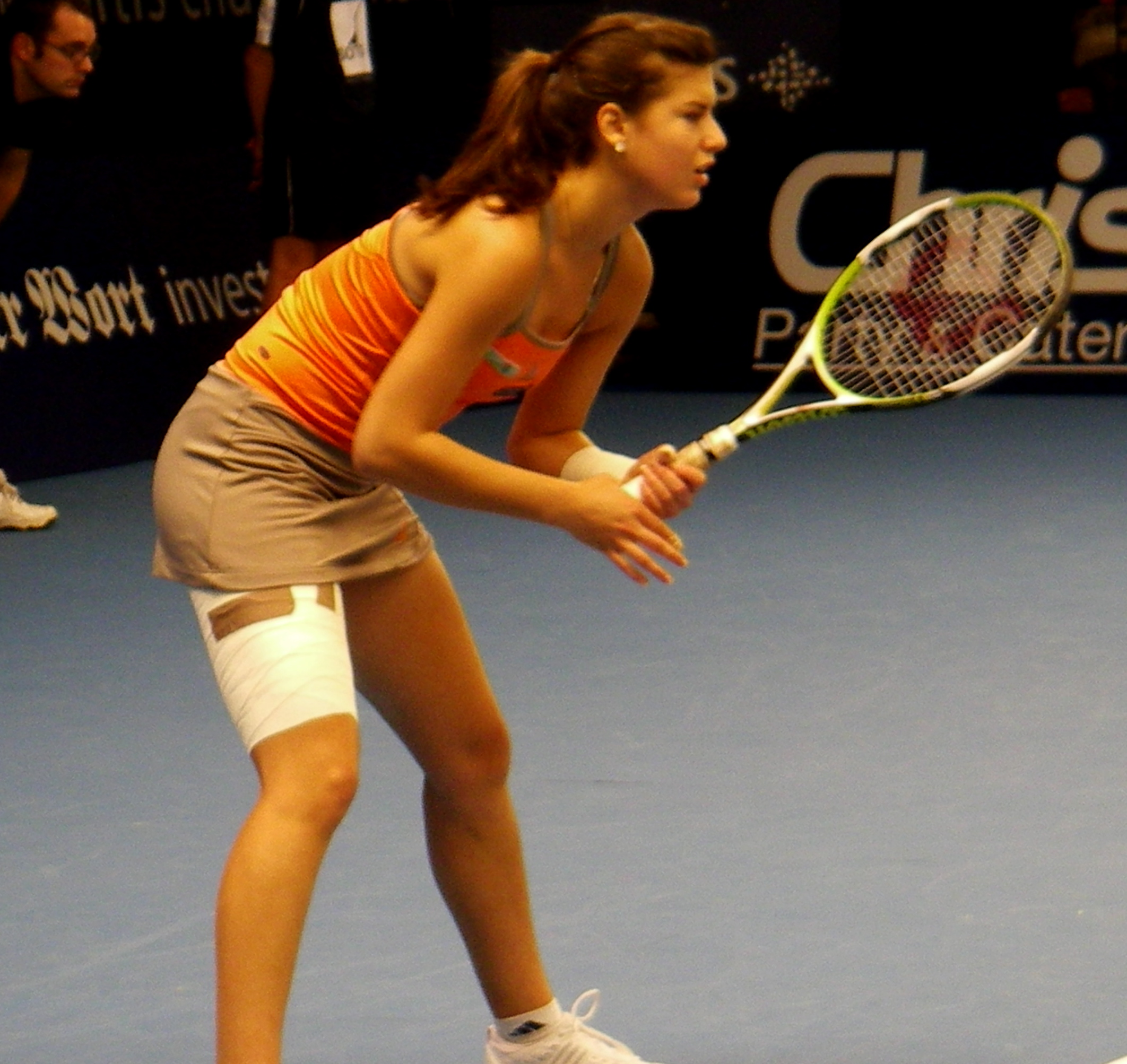 Sorana Cîrstea at 2008 Fortis Championships Luxembourg